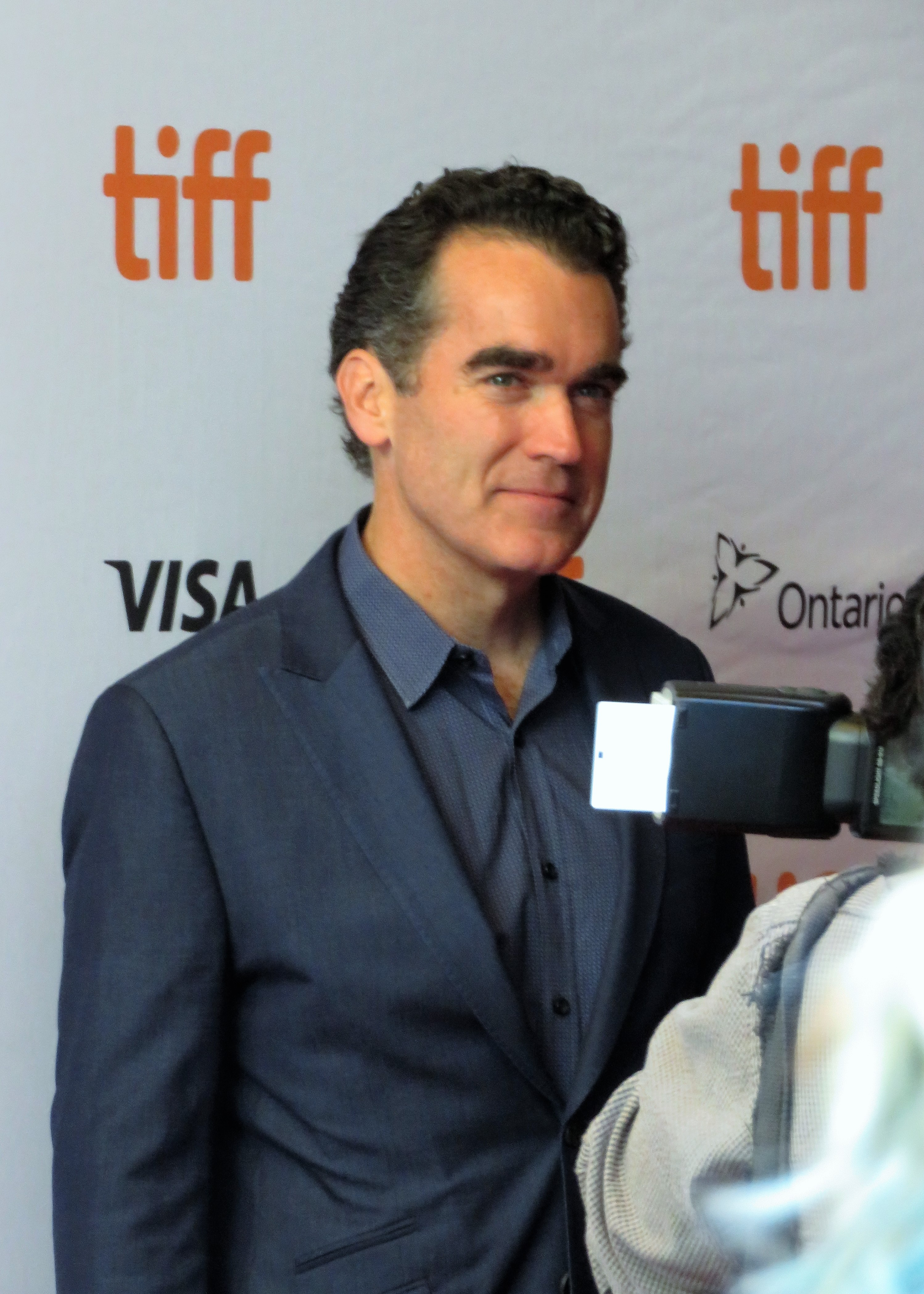 Brian d'Arcy James at the premiere of Molly's Game, 2017 Toronto Film Festival